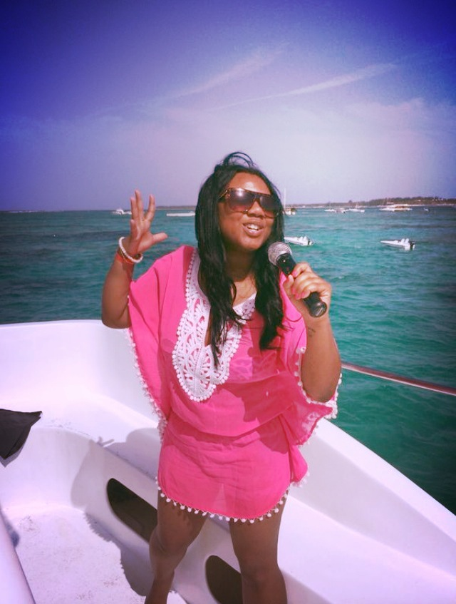 Shereen Miranda singing live in the Dominican Republic on a 4th July Yacht Party in 2014